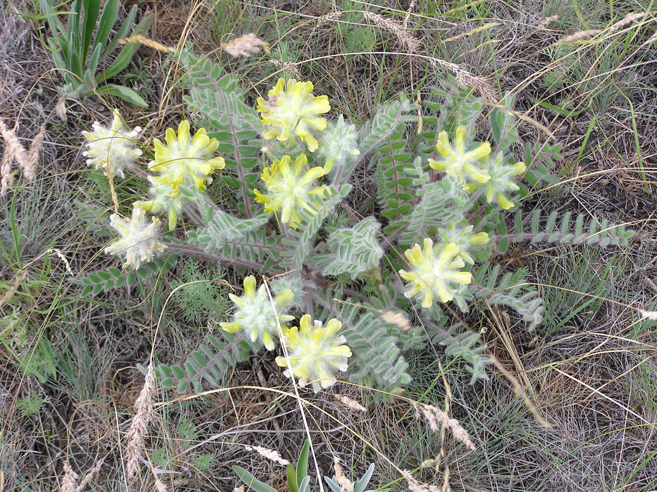 Astragalus dasyanthus Pall. Habitat: steppe on a gentle northern slope. Vicinity of Saratov city, Russia.